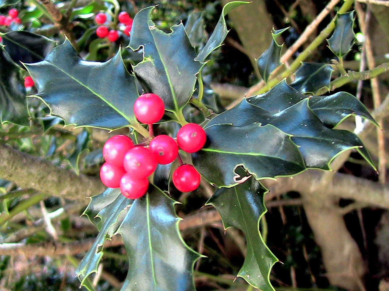 Ilex aquifolium. In Queralt (Berguedà-Catalunya). To 1.255 m. altitude